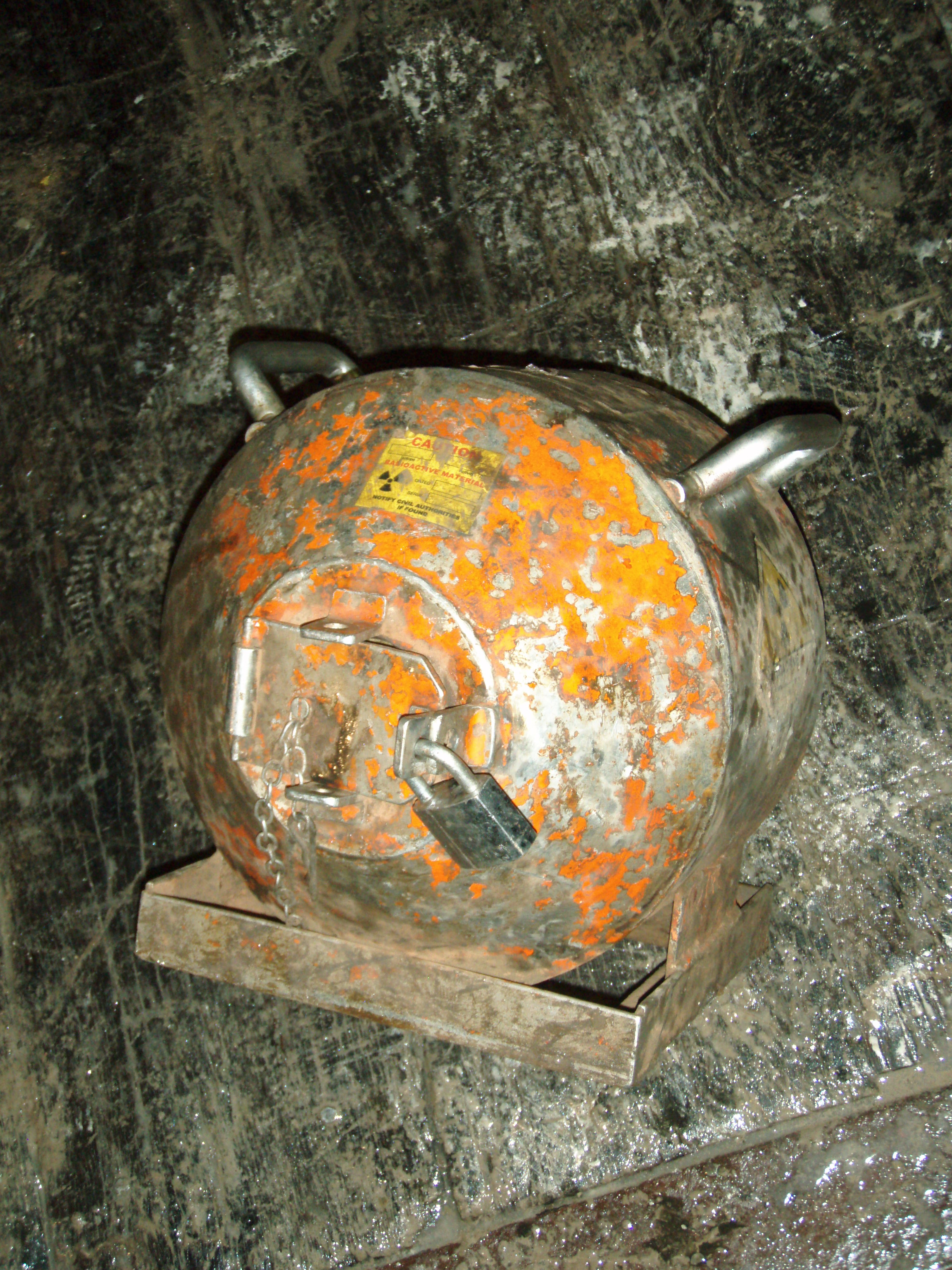 Locked case for Radioactive Source for Logging Job is where the source for logging a welll is safely gaurded